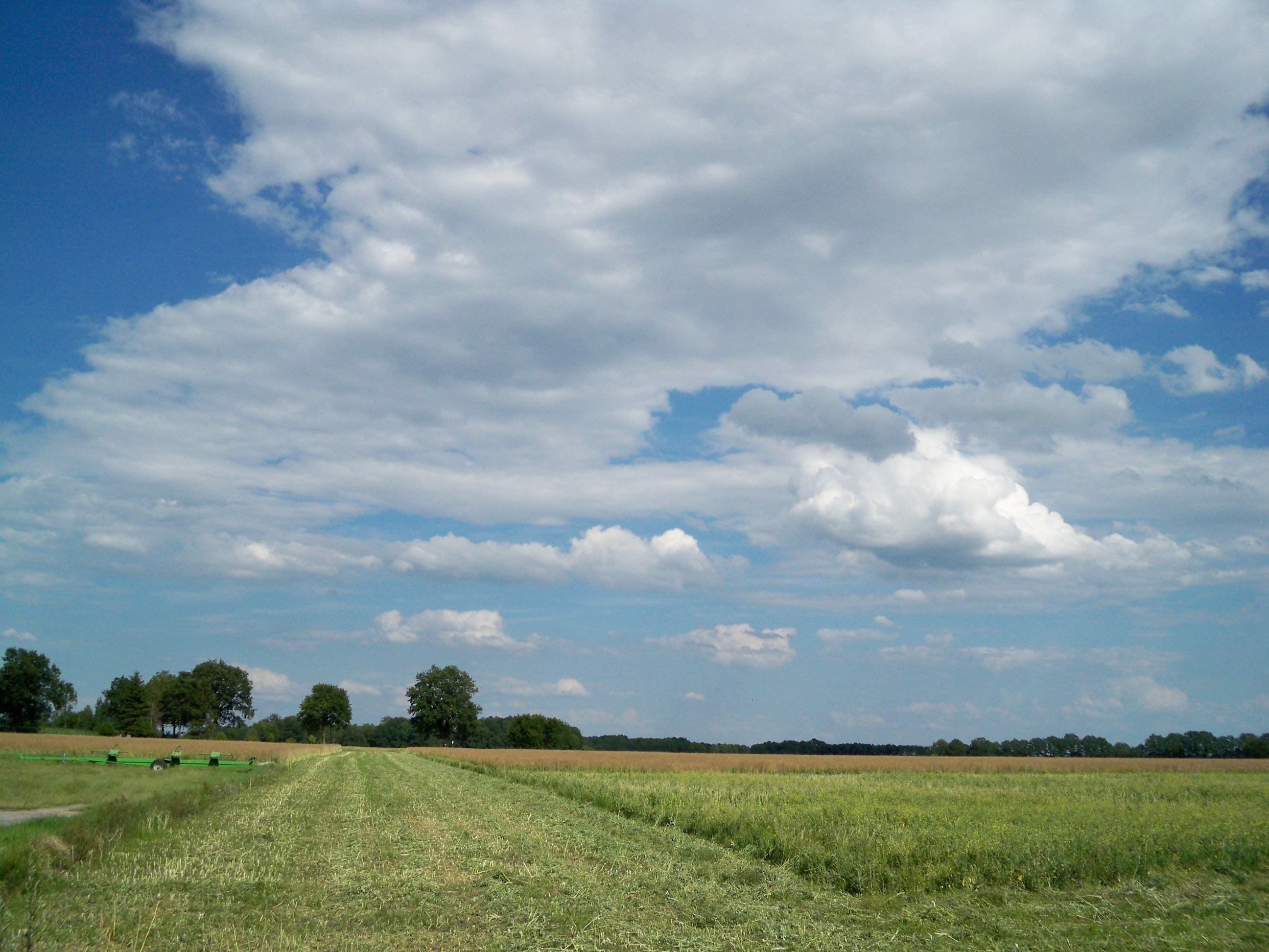 Vorsfelder Werder near Eischott, Lower Saxony